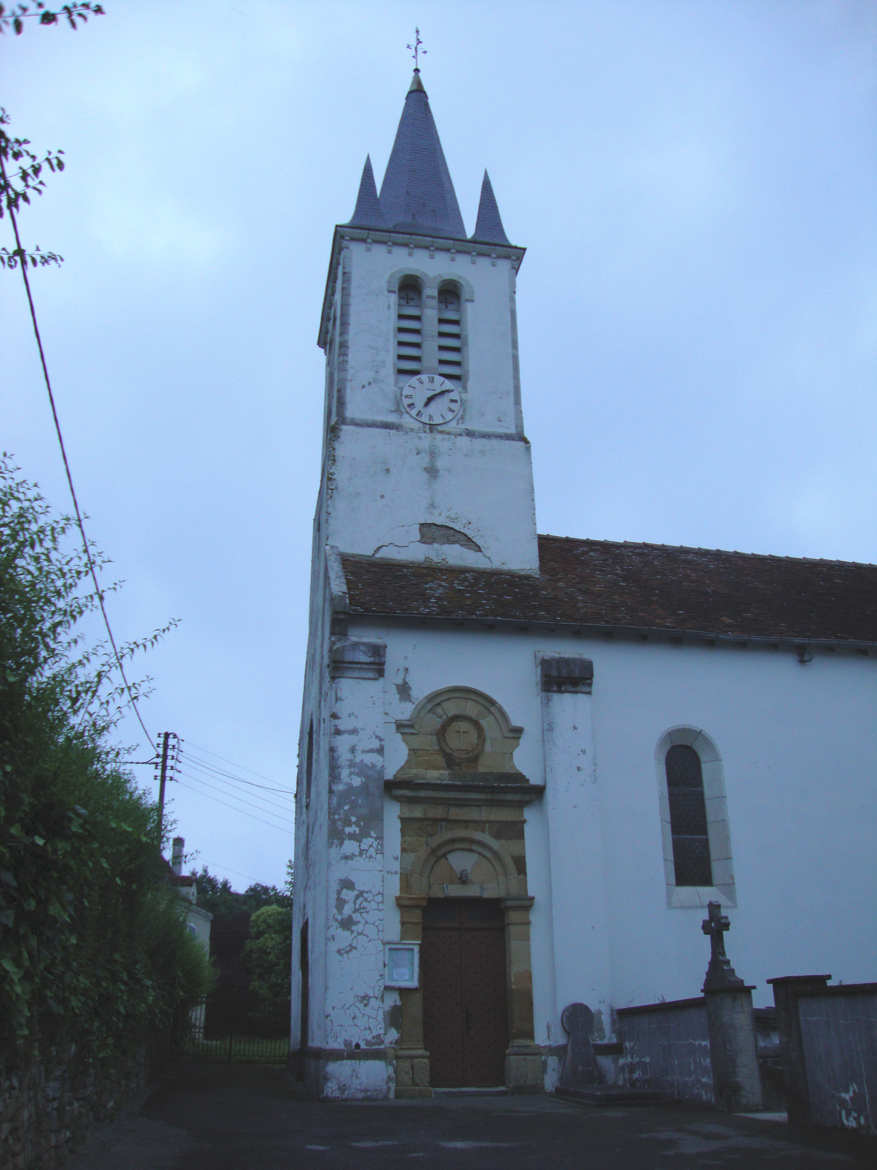 Aroue (Aroue-Ithorots-Olhaïbe, Pyr-Atl,Fr) church tower